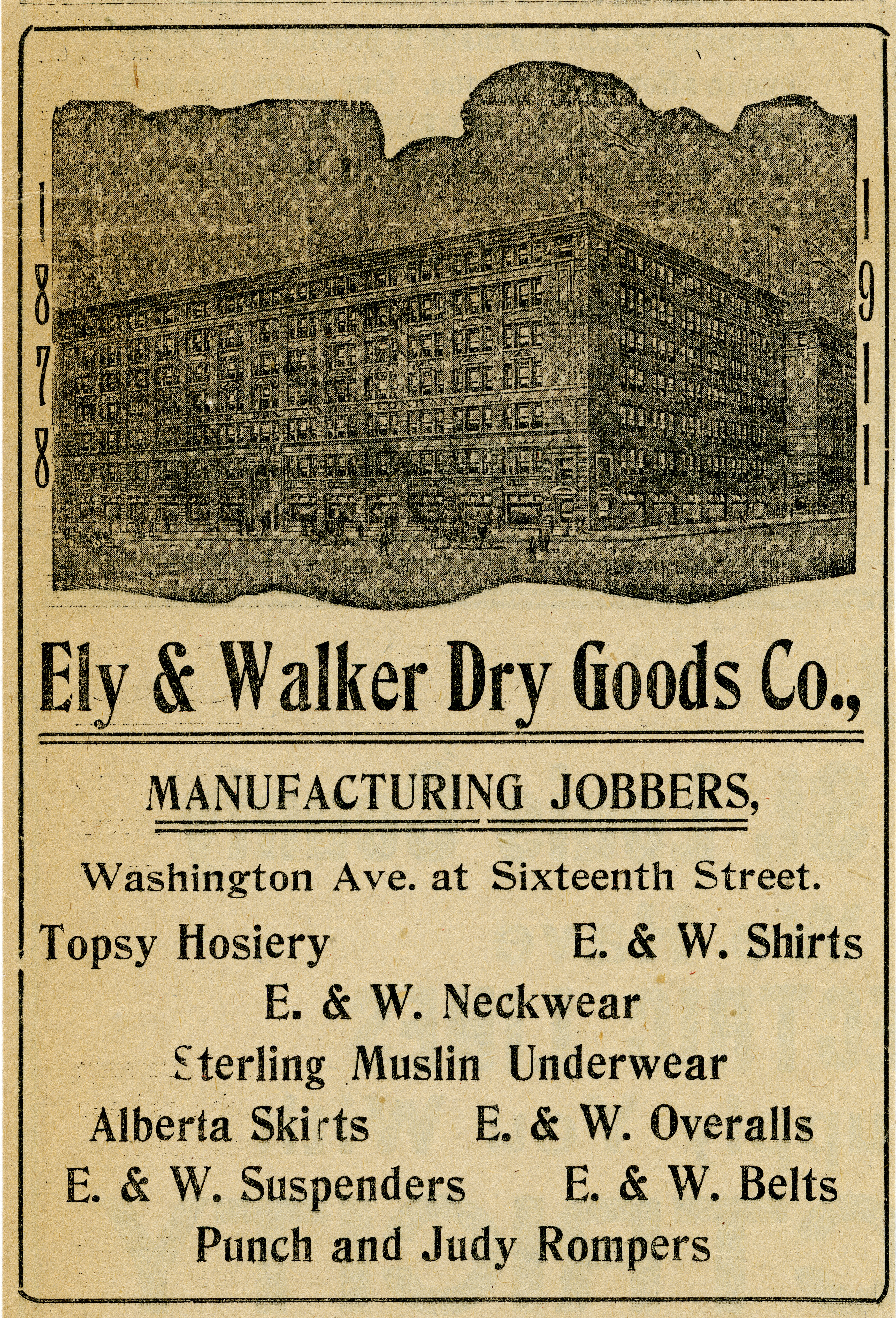 Vertical, black and white print of a seven-story building with people walking on the street and sidewalk in front of it. "Ely & Walker Dry Goods Co., MANUFACTURING JOBBERS, Washington Ave. at Sixteenth Street. Topsy Hosiery E. & W. Shirts E. & W. Neckwear Alberta Skirts E. & W. Overalls E. & W. Suspenders E. & W. Belts Punch and Judy Rompers" (printed below image). Title: Ely and Walker Dry Goods Company advertisement.